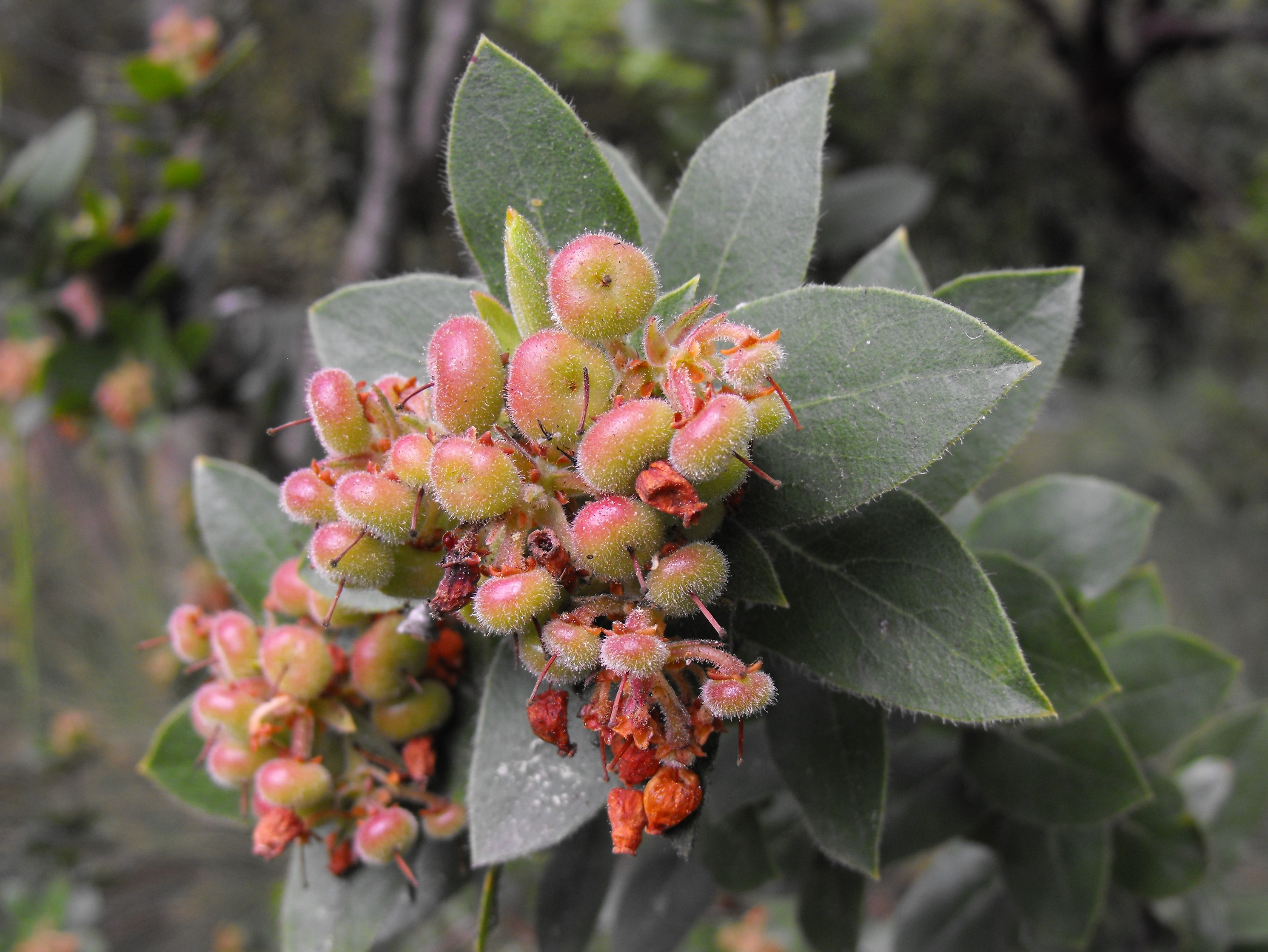 Arctostaphylos montaraensis — Montara manzanita. Endemic to California, where it is only known from a few occurrences on San Bruno Mountain and on Montara Mountain, in San Mateo County, western San Francisco Bay Area. Found in Coastal sage and chaparral habitats. Specimen identified by sign at the University of California Botanical Garden, Berkeley, Berkeley Hills.